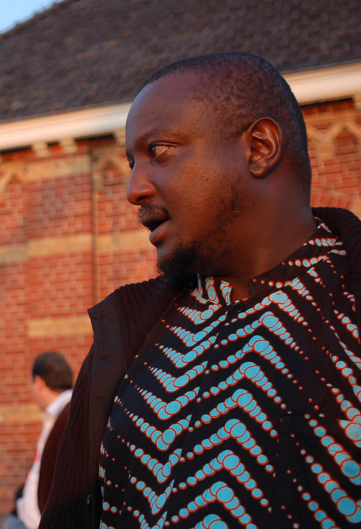 Binyavanga Wainaina, PICNIC Festival - Amsterdam, 25 Sept. 2008